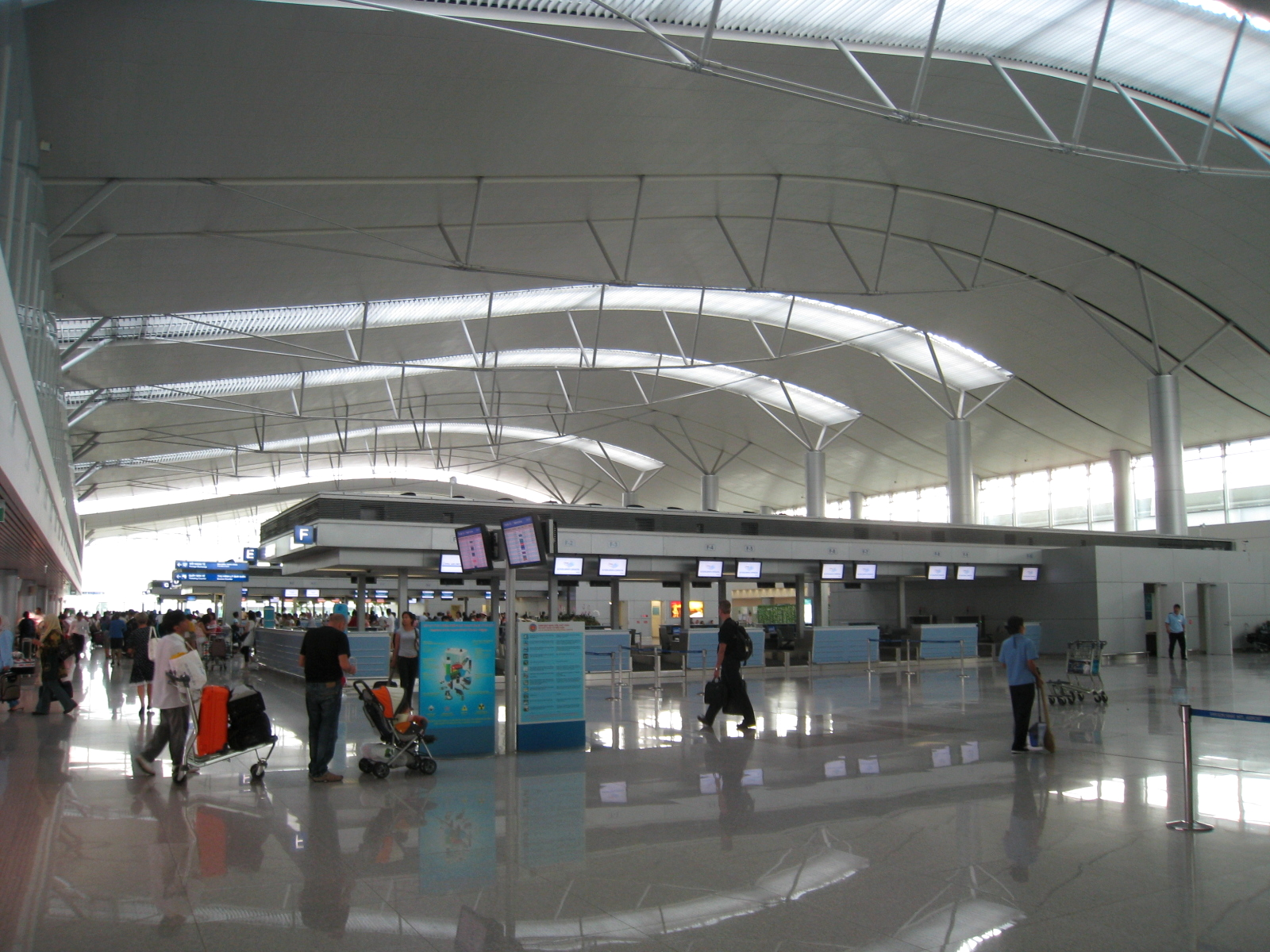 Tan Son Nhat International Airport Level 3 新山一國際機場